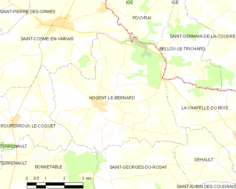 Map of French municipality